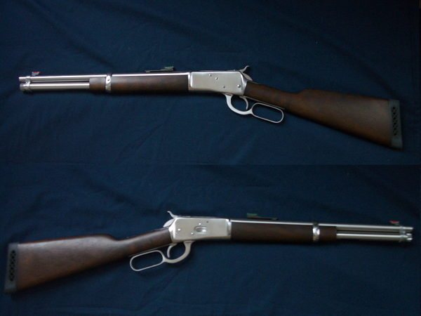 16" Puma lever-action rifle in .454 Casull